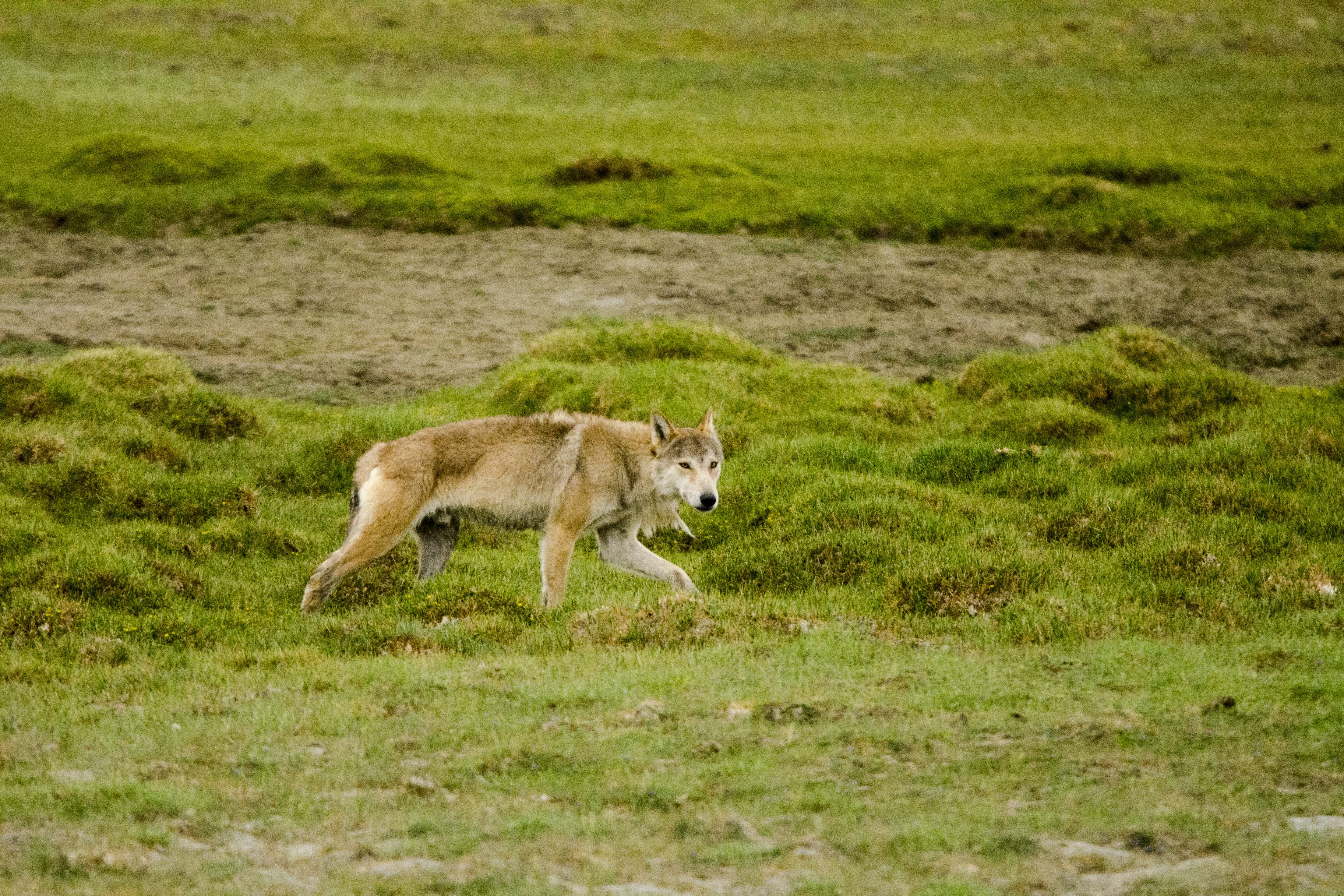 Tibetan Wolf / Himalayan Wolf